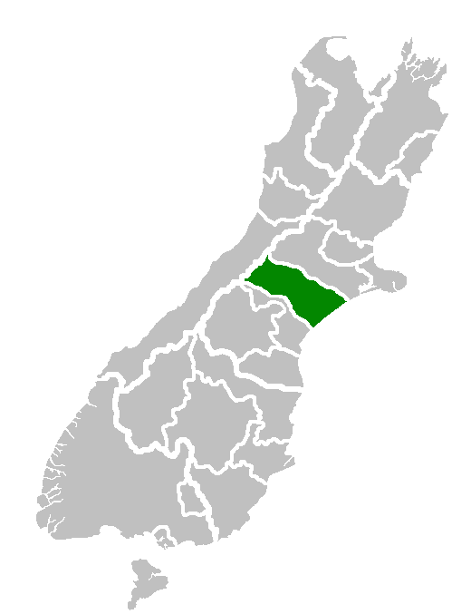 Location of Ashburton District.